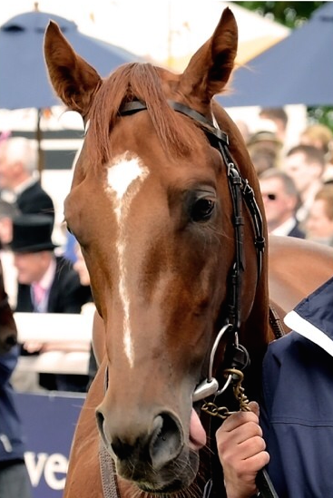 Face of Australia at the Epsom Derby